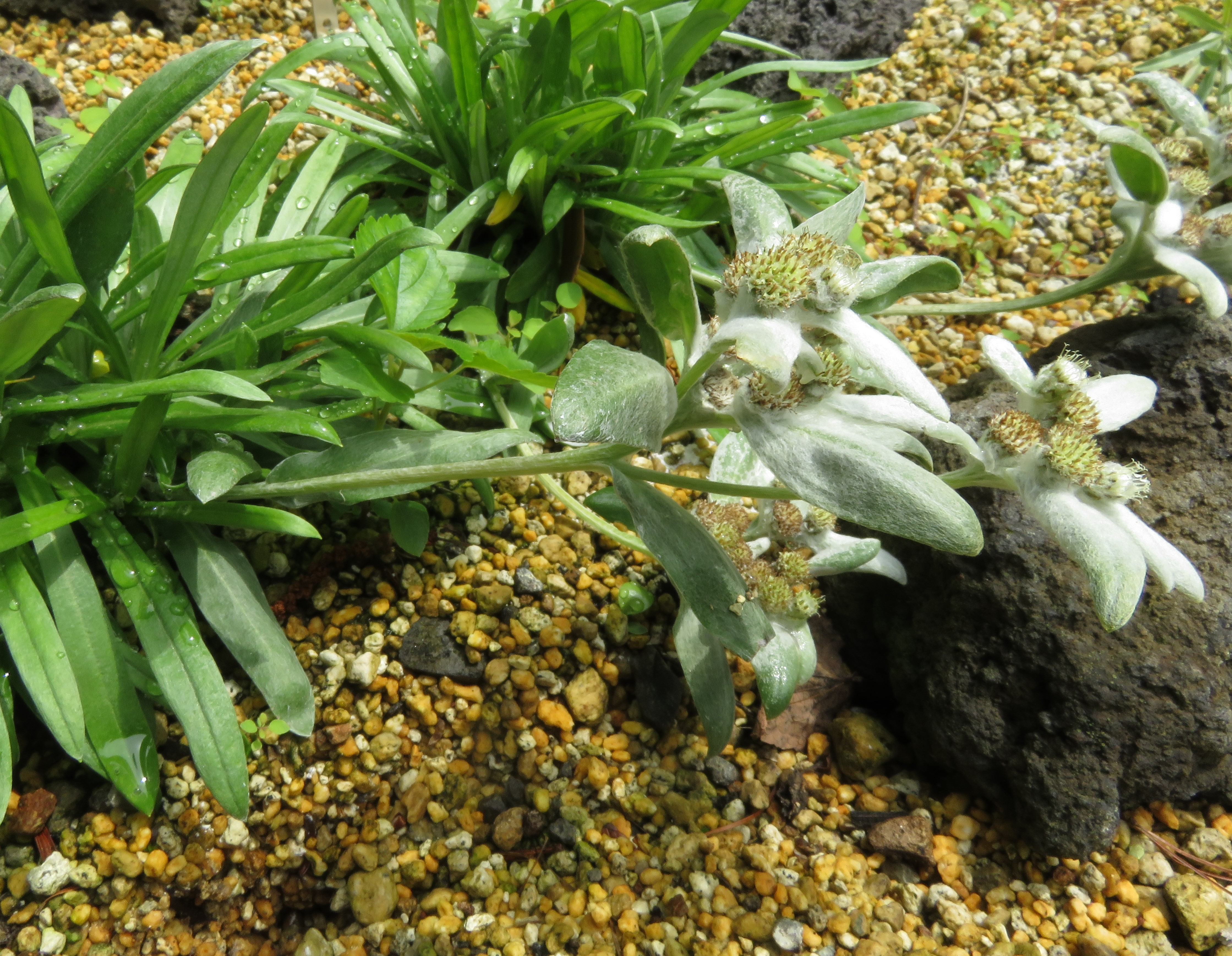 Leontopodium miyabeanum, Tsukuba Botanical Garden, Ibaraki pref., Japan